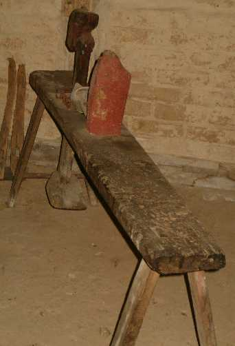 Shave horse, a workbench and clamp used for green woodworking. Work is clamped under the "horse head", which is clamped by pushing the treadle bar with the feet.